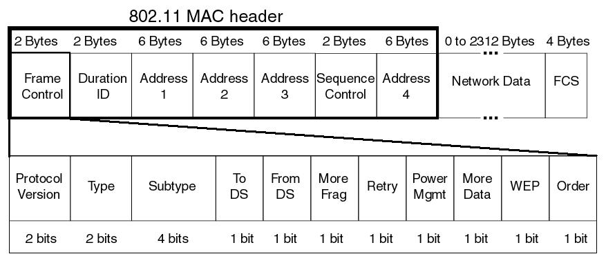 Overview wi-fi packet frames